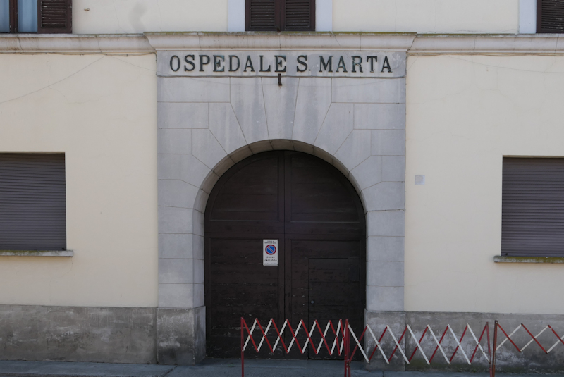 Rivolta d'Adda, Santa Marta hospital, access